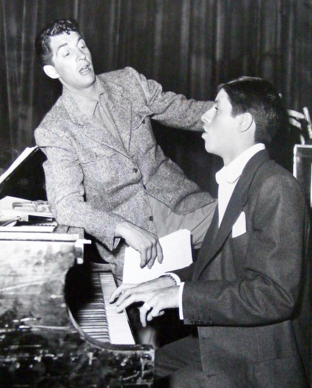 Photo of Dean Martin and Jerry Lewis circa 1950-1955 from the television program The Colgate Comedy Hour. This appears to be a rehearsal photo.